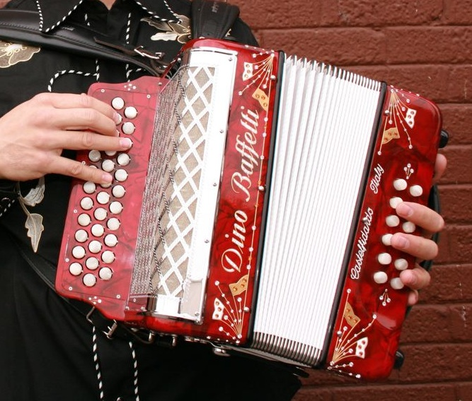 This is a three-row diatonic button accordion with 34 treble buttons and 12 bass buttons.